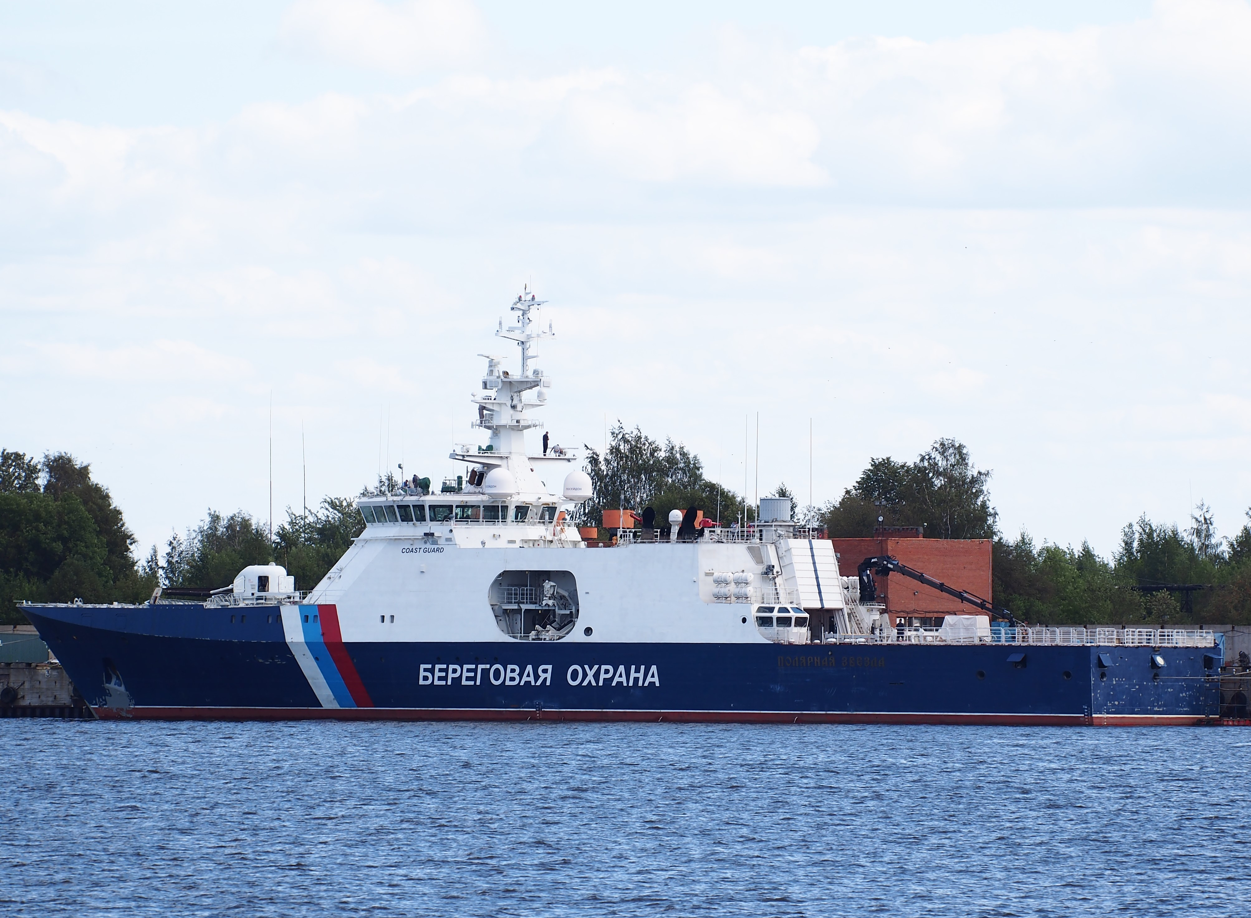 Photographed at Port of Kronstadt.